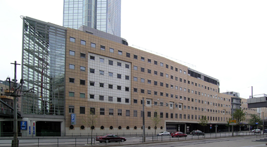 Galleri Oslo, Schweigårds gate 4-14, Oslo. Erected 1986-1989. Architect: LPO arkitektur & design.